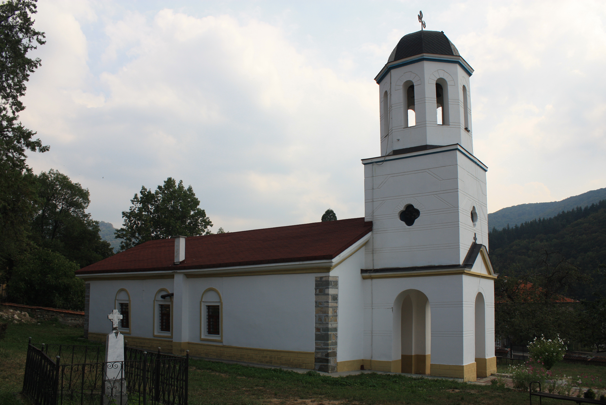 Saints Cyril and Methodius Church in Dushantsi, Bulgaria